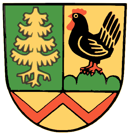 Coat of Arms of Nahetal-Waldau